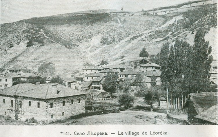 Village of Leva reka or Leoreka, Resensko, Republic of Macedonia